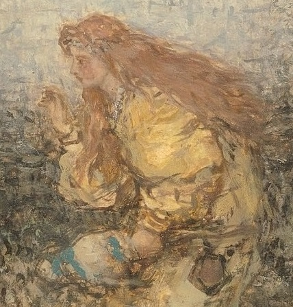 Sprookje (cropped)